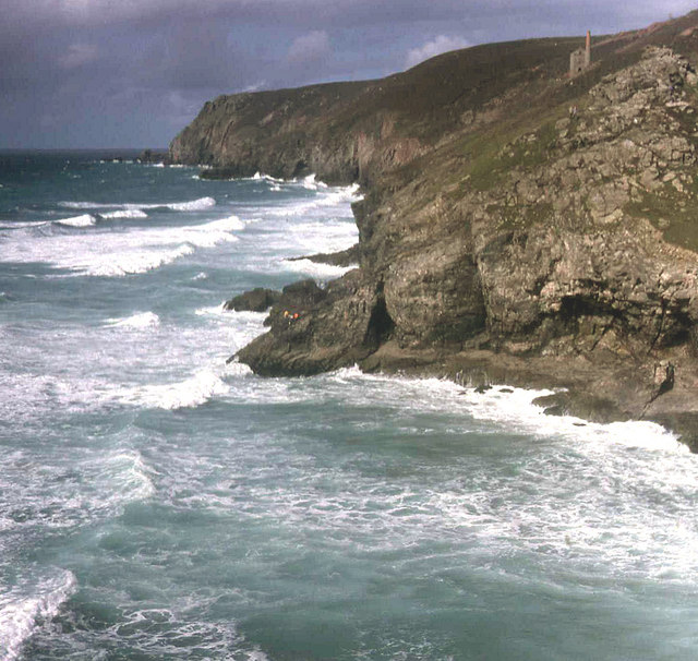 Mouth of Chapel Porth - 1 Looking north from the clifftop along the coast to St Agnes Head.